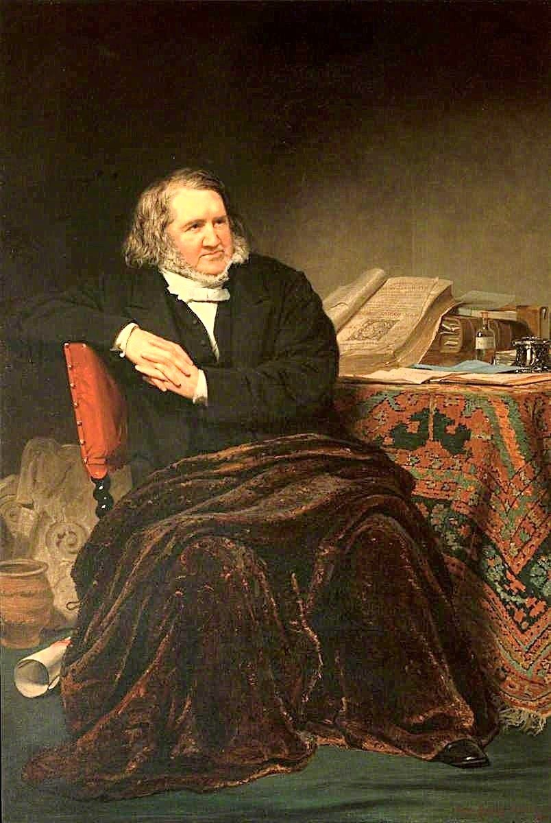 Sir James Young Simpson. Medium: oil on canvas. Measurements: H 205.7 x W 137 cm. Collection: Royal College of Physicians of Edinburgh.